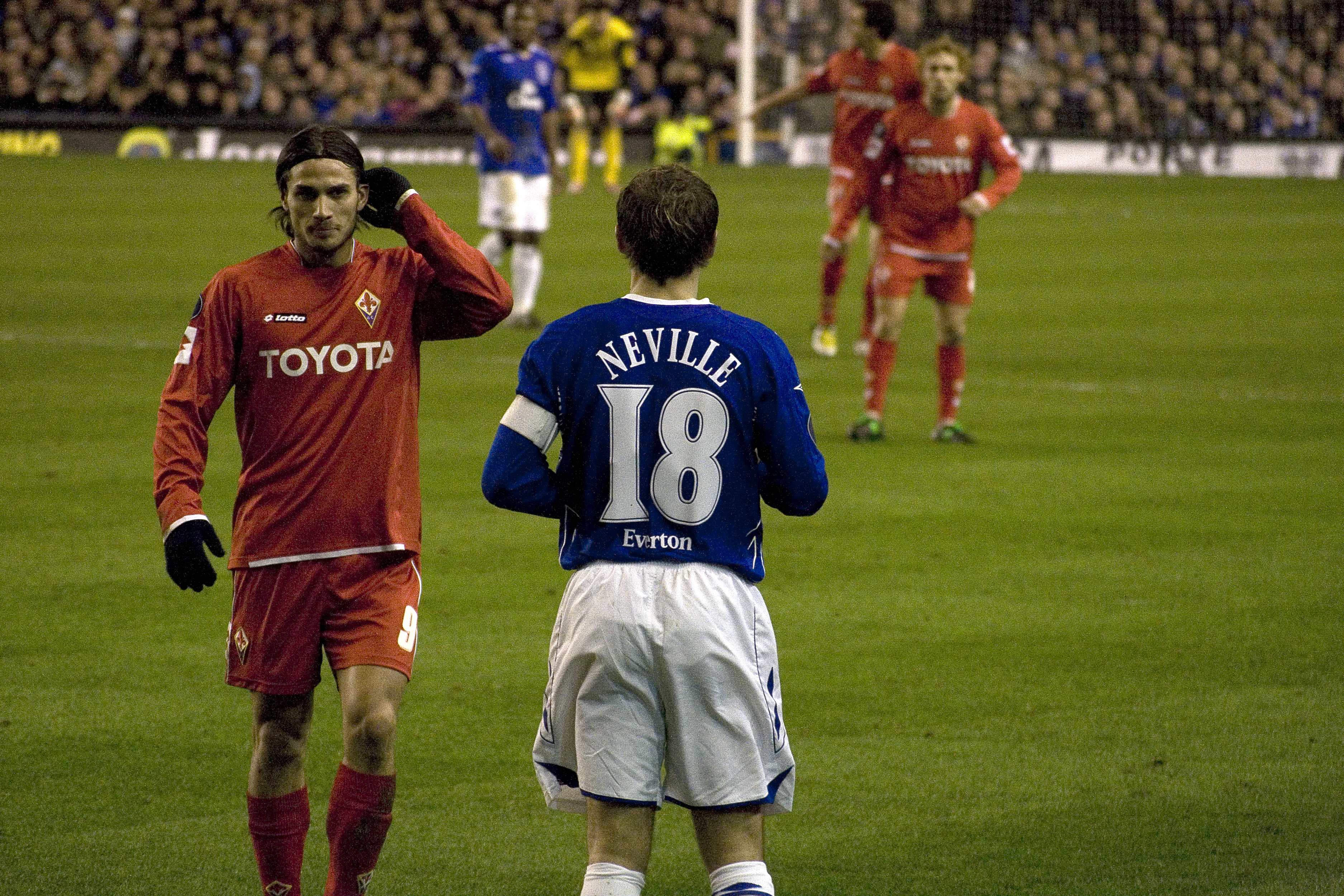 Pablo Daniel Osvaldo of ACF Fiorentian, Phil Neville of Everton